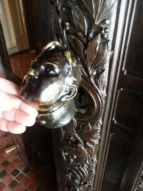 Joseph Miller Huston, the architect of Pennsylvania's capitol, placed his hinged bust over the keyhole to the massive doors of the main entrance. The busts of other persons deemed important in the construction of the building also decorate the doors.